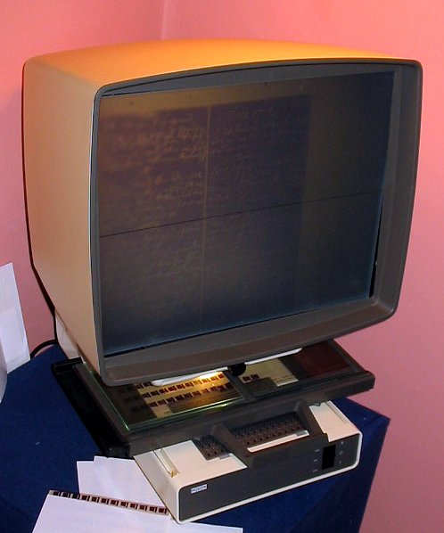 microform-reader / microfiche machine